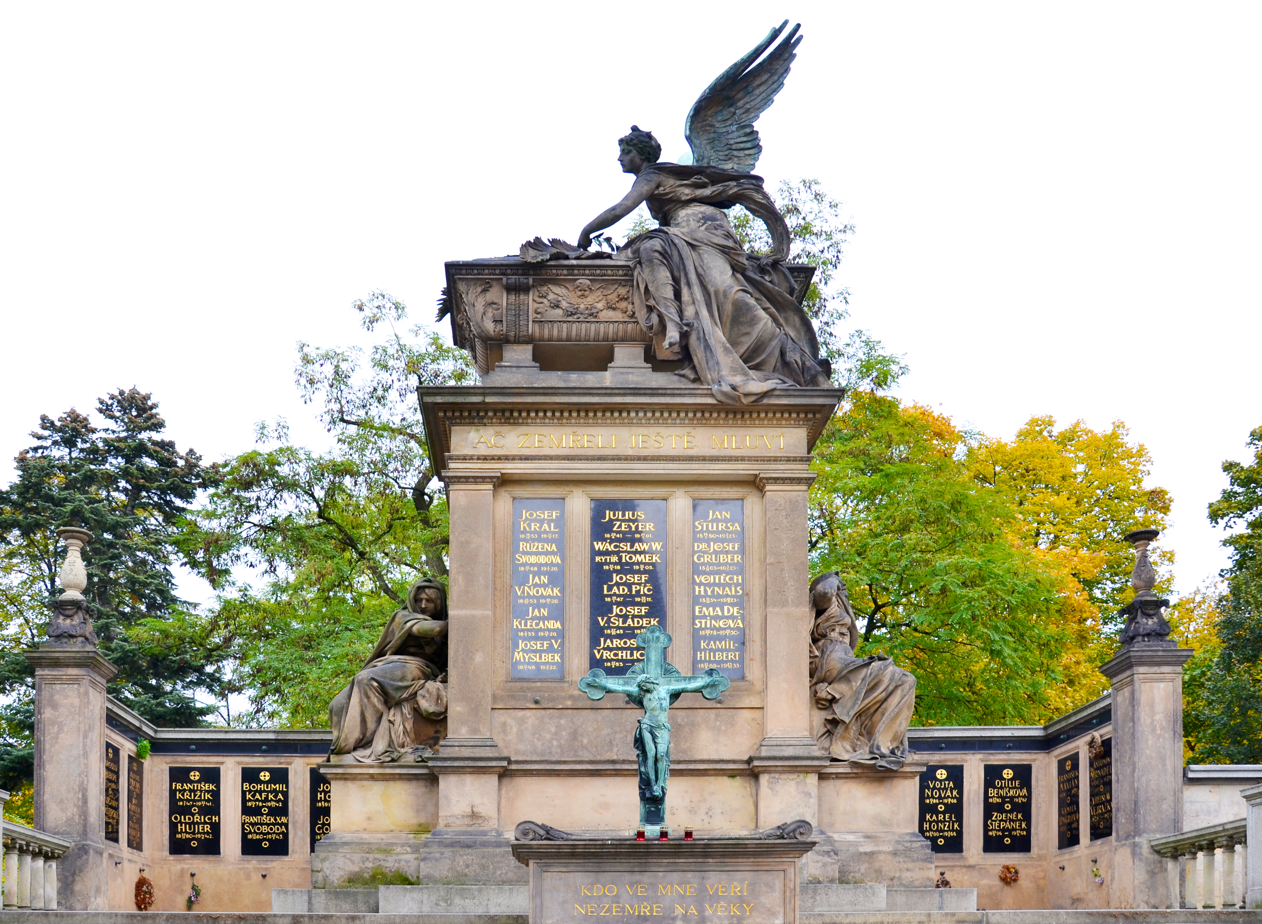 Josef Mauder, Sculptures at National Tomb, Vyšehrad, Prague